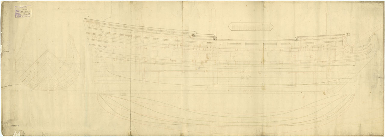 Medway (1718) Scale: 1:48. Plan showing the body plan, sheer lines with inboard detail, and longitudinal half-breadth proposed (and approved) for Medway (1718), a modified 1706 Establishment 60-gun Fourth Rate, two-decker. MEDWAY 1718